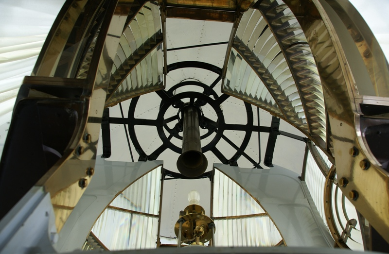 Kinnaird Head Castle Lighthouse, Fraserburgh, Aberdeenshire, Scotland. The light in the lighthouse.